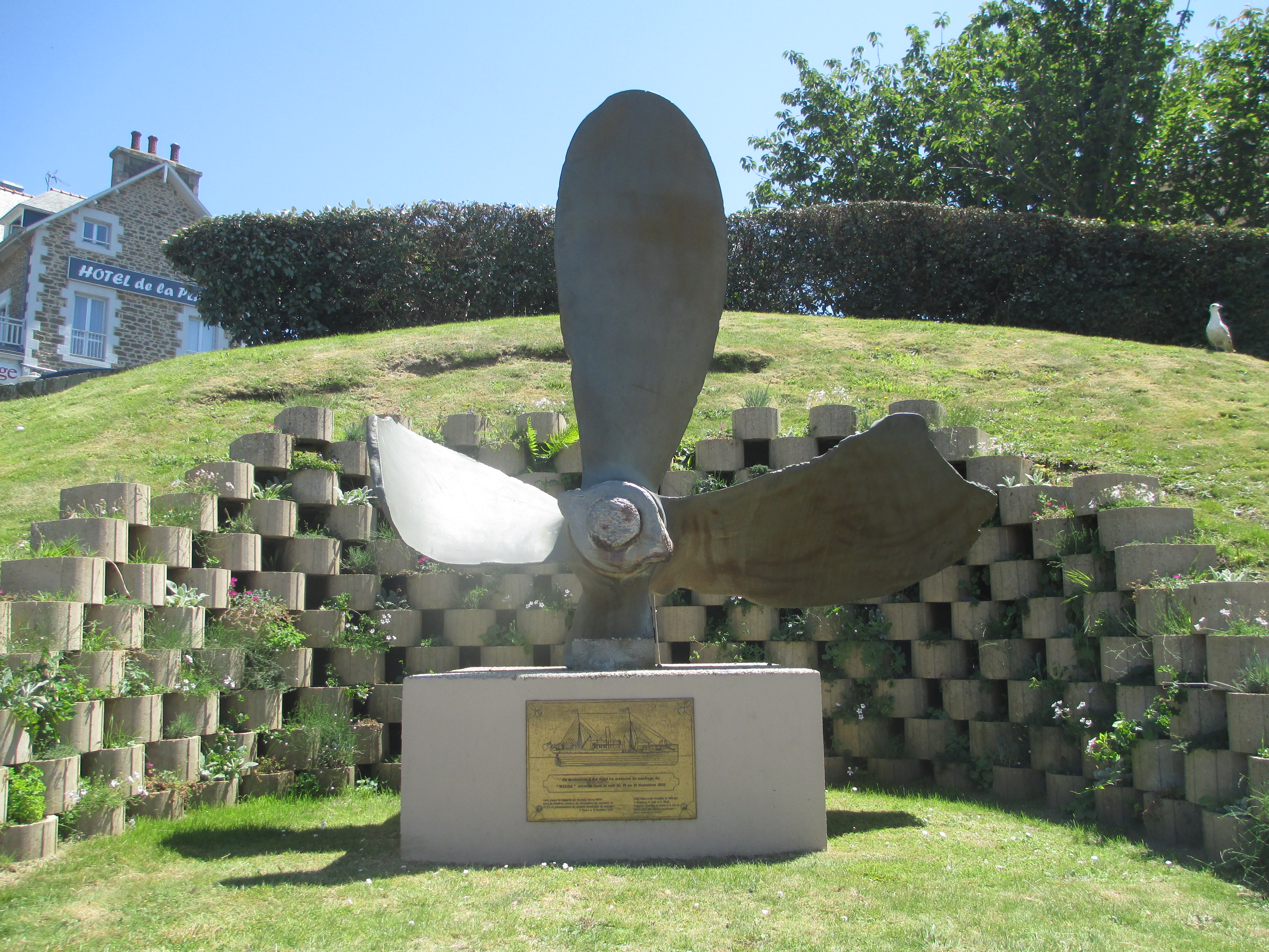 SS Hilda memorial in Dinard